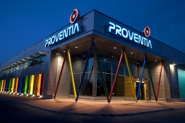 Proventia Headquarters in Oulunsalo, Oulu.